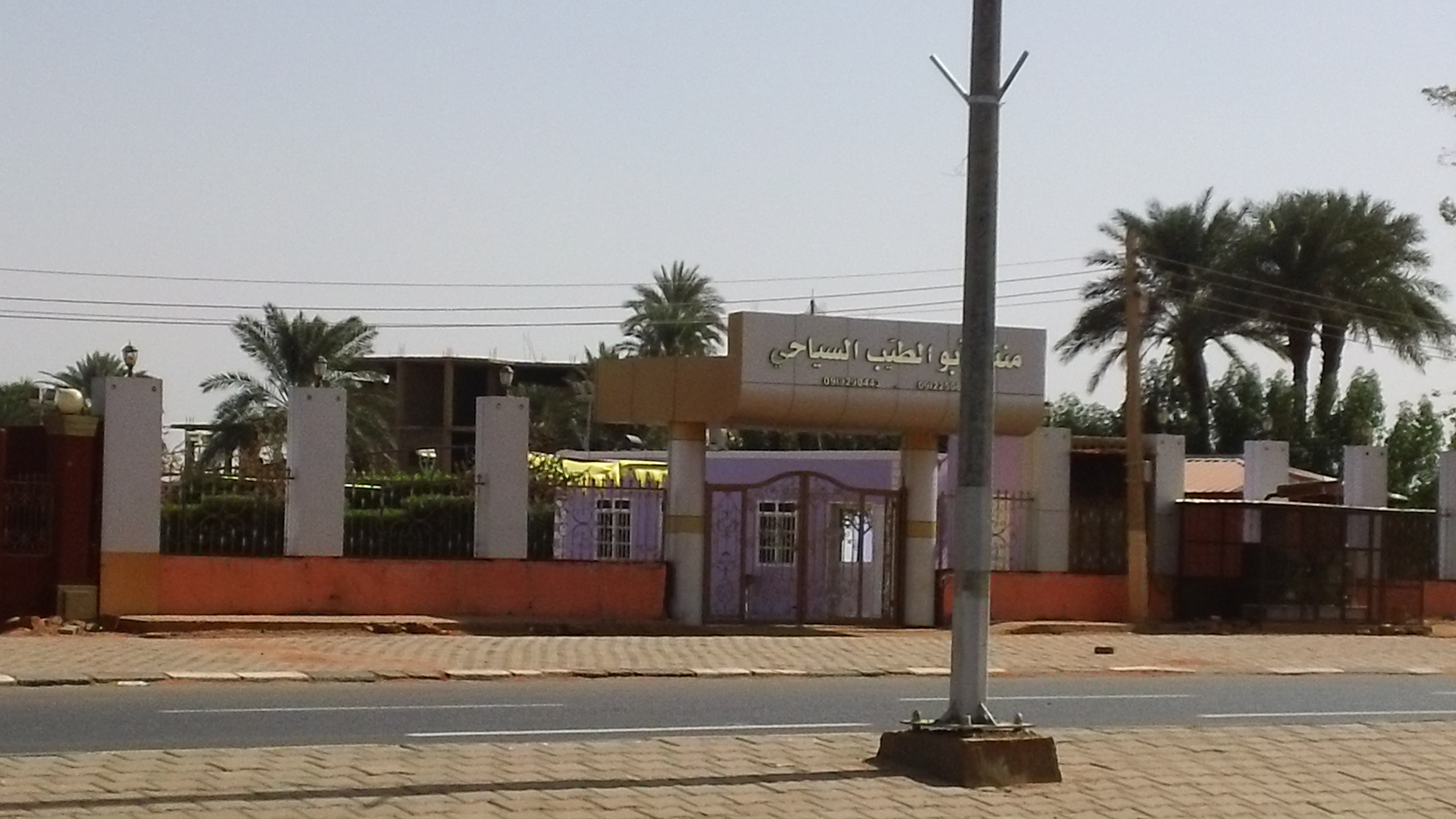 Abueltyb Park - Omudrman - Sudan